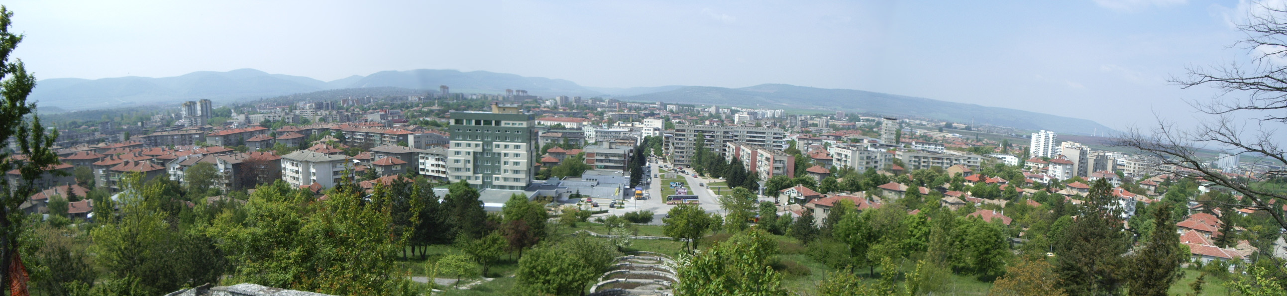 Panorama of Targovishte, Bulgaria